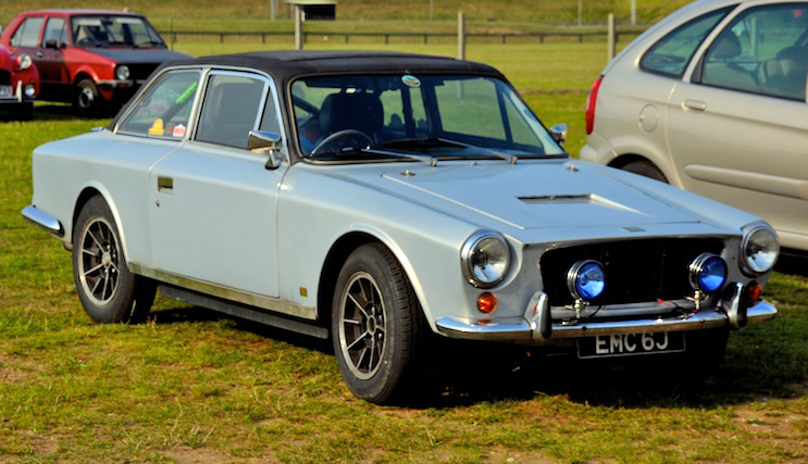 1971 Gilbern Invader (3L Ford engine), Welsh sports car, In the pits of the Citroën 2CV 24 Hour Race at Snetterton, 2009, just before the start